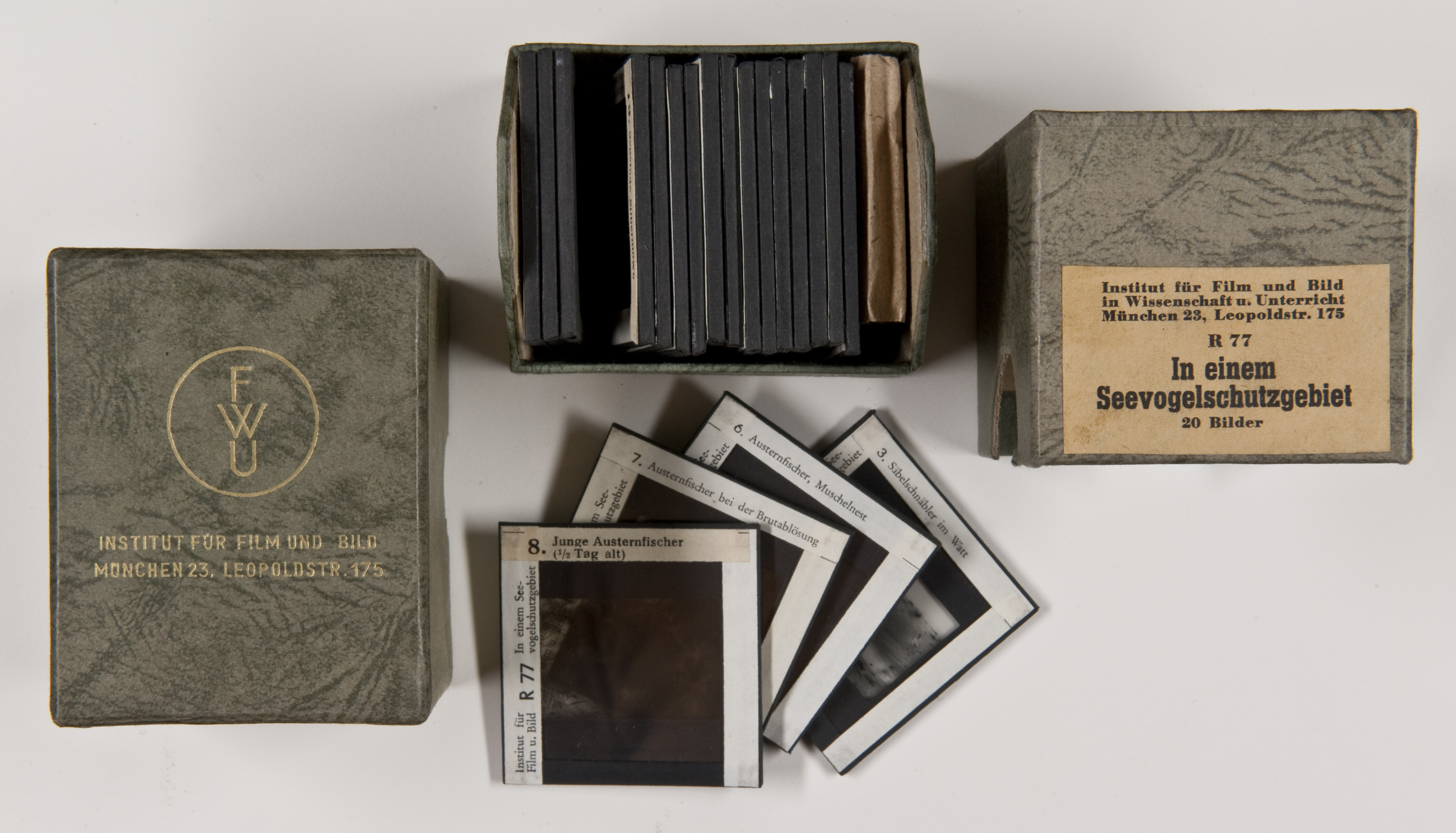 Slide collection issued for education by FWU, Germany (Institut für Film und Bild in Wissenschaft und Unterricht)